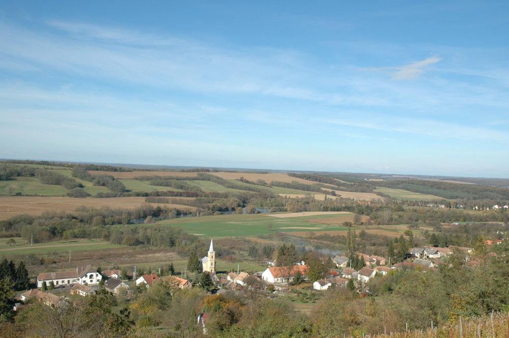 Panoramic view of village of Pusztaszentlászló (Zala county, Hungary)